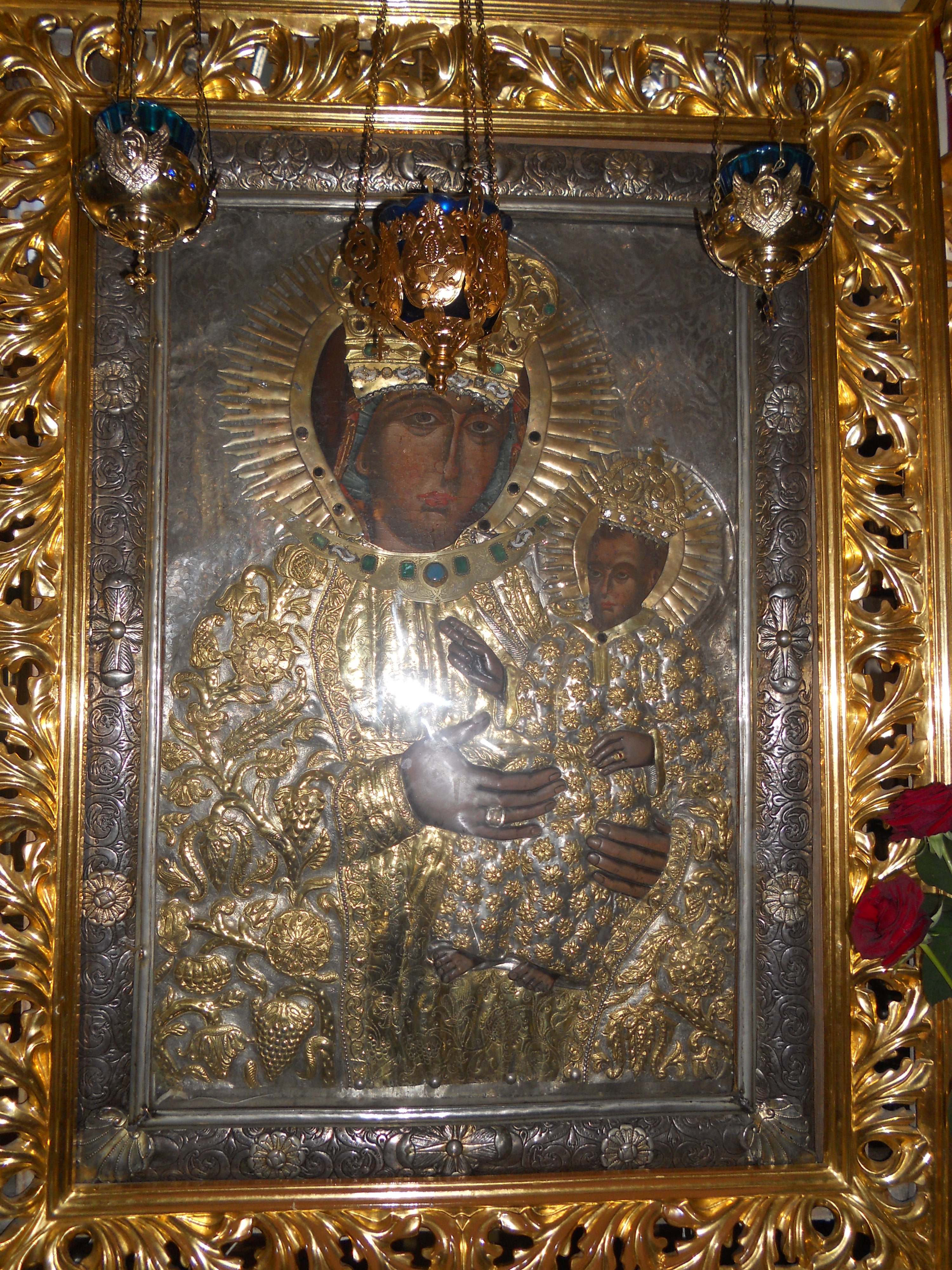 Mezhyric'ka Bohorodytsya.